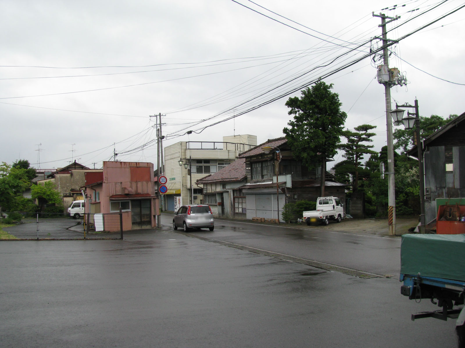 Kawahigashi Station on Suigun Line